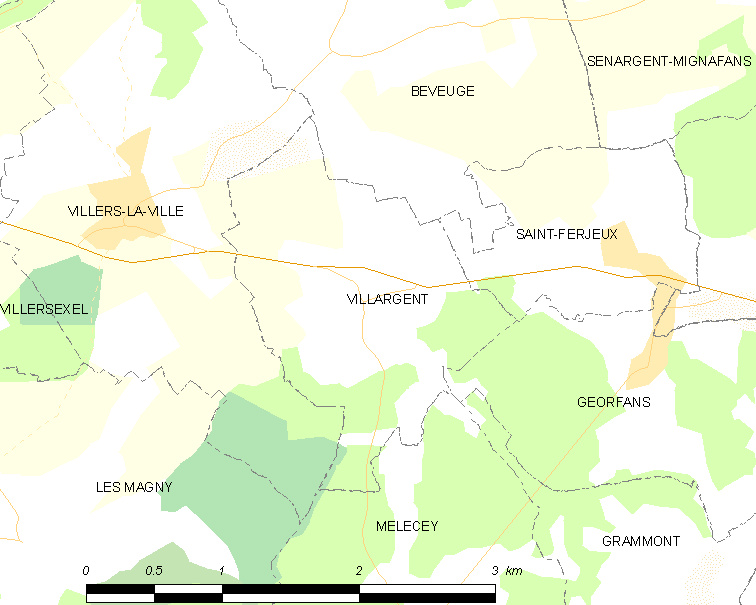 Map of French municipality